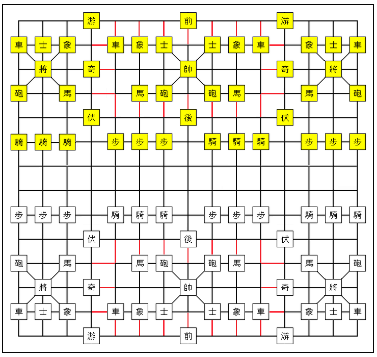 The Gwangsanghui board.